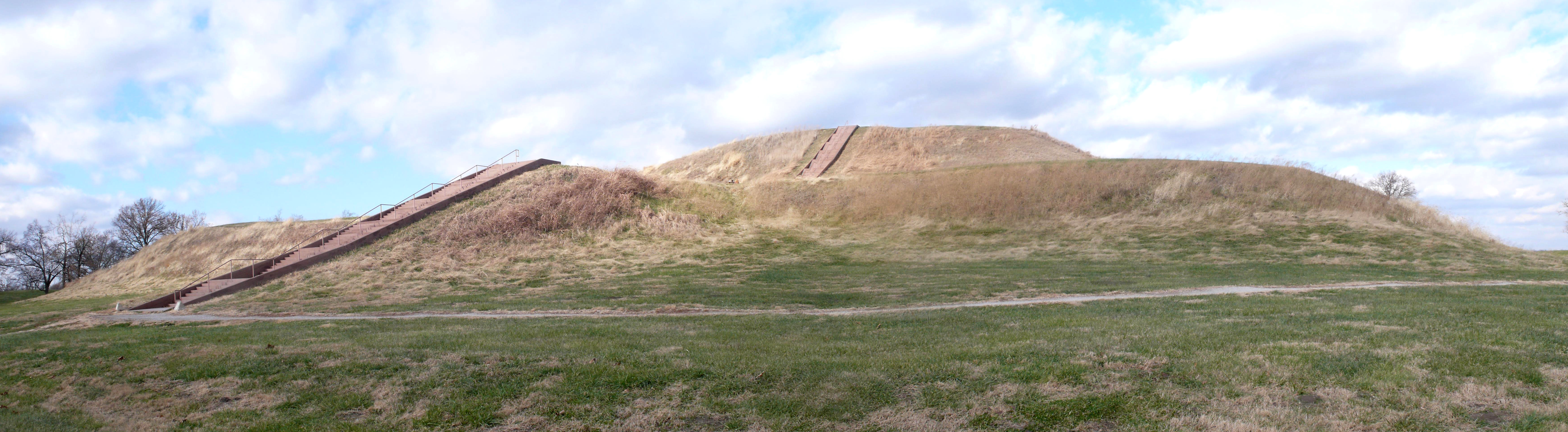 Monk's Mound a Pre-Columbian earthwork, located at the Cahokia site near Collinsville, Illinois.